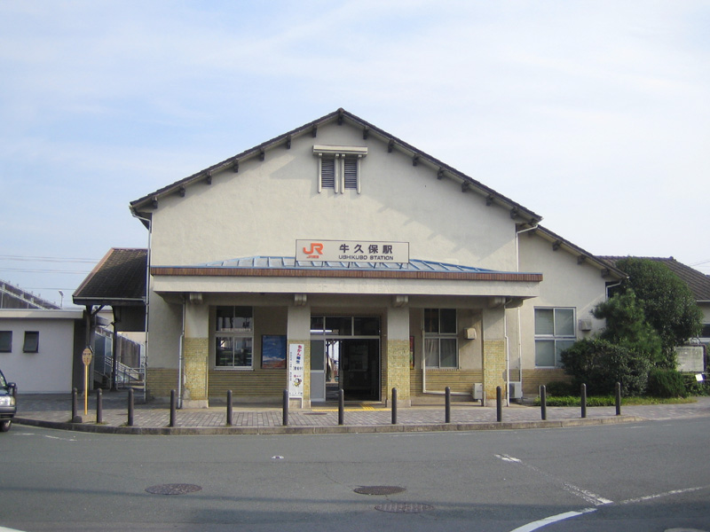 =Ushikubo Station (牛久保駅), located at 55 Shiroato, Ushikubo-cho, Toyokawa, Aichi, Japan